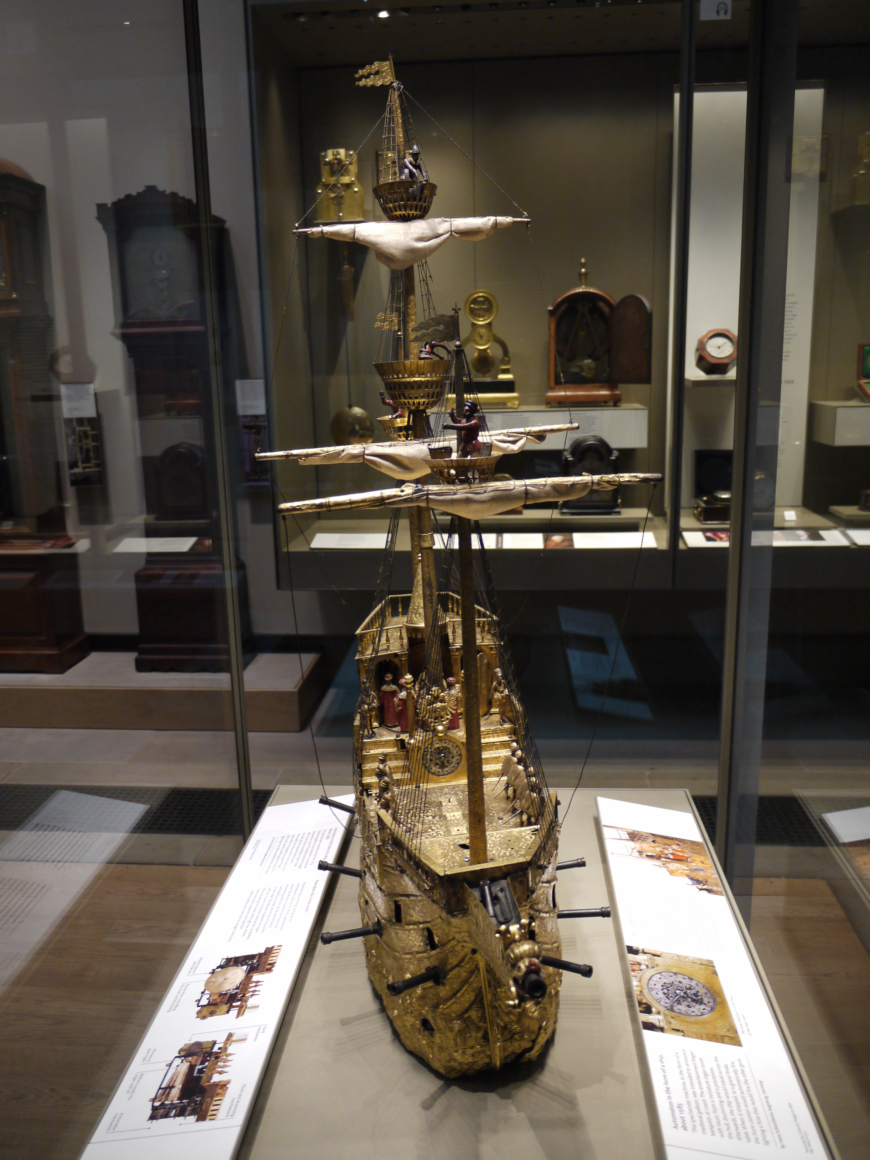 Photo of a Mechanical Galleon featured in the british museum's a History of the World in 100 Objects